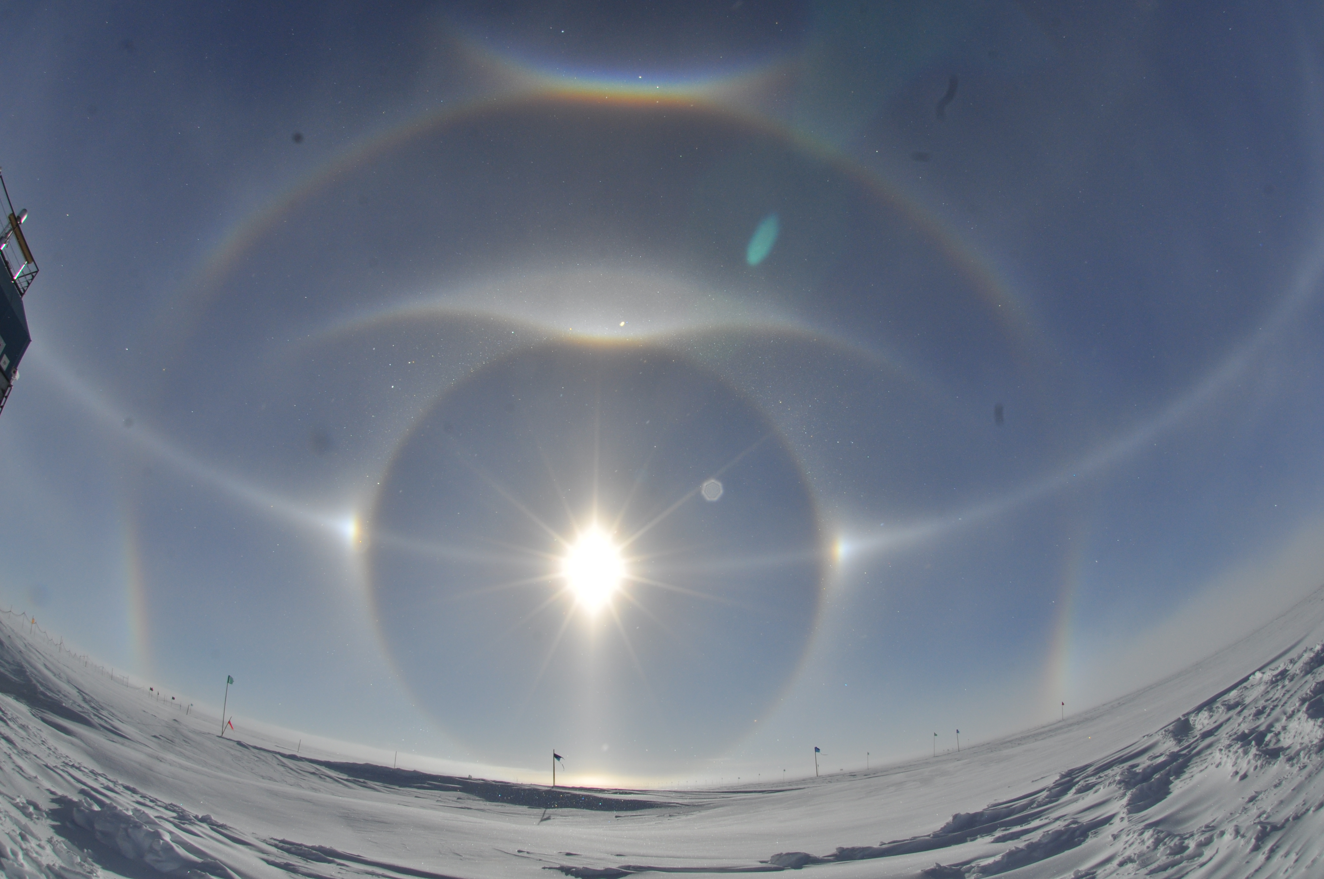 From top to bottom: Circumzenithal arc, supralateral arc, Parry arc, tangential arc, 22 degree halo, parhelic circle, and sun dogs on right and left intersection of 22 degree halo and parhelic circle. Photographer: Lieutenant Commander Heather Moe, NOAA Corps Image ID: anta0202, NOAA at the Ends of the Earth Location: South Pole Station, Antarctica